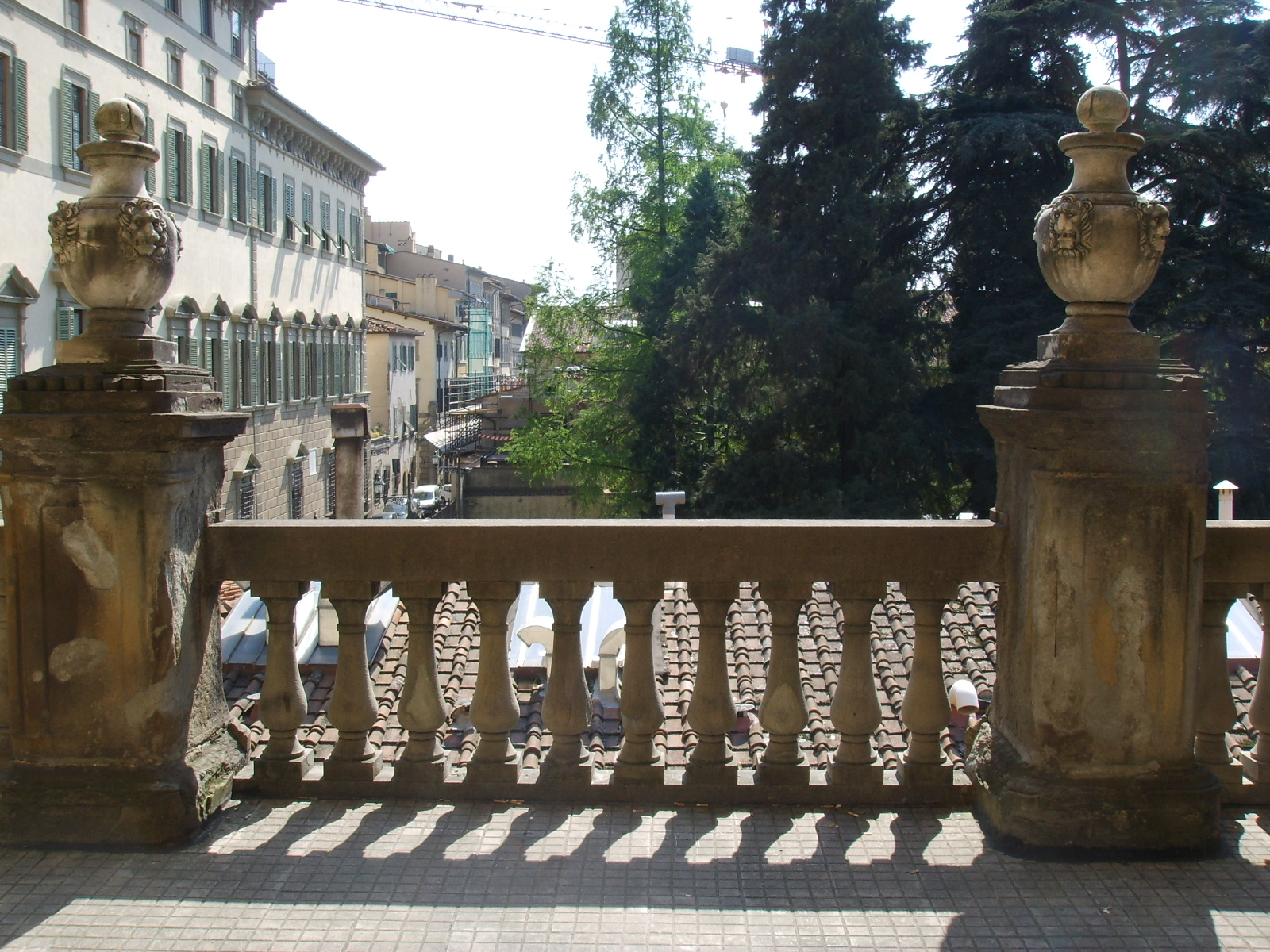 terrace in Florence